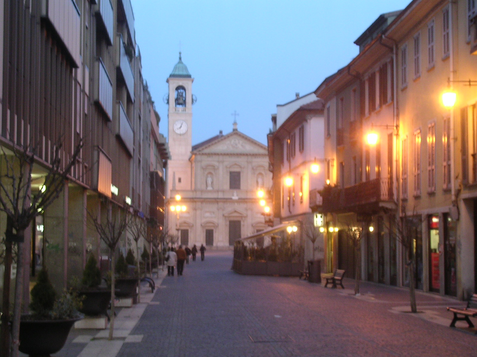 Corso d'Italia in Saronno, Italy. In the background the main catholic church, Saint Peter and Paul.